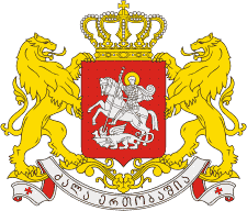 Coat of arms of Georgia